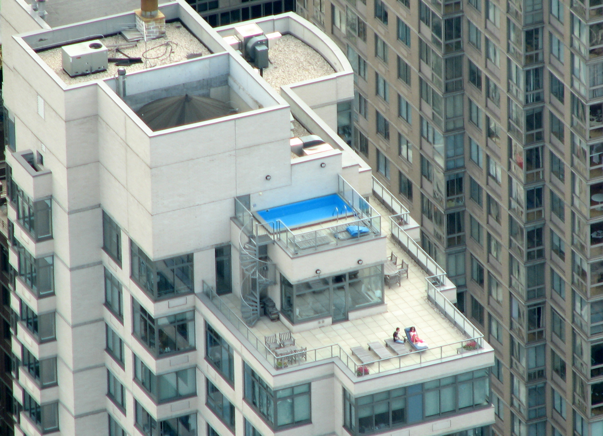 Rooftop pool in New York City. Photo was taken from the Empire State Building.